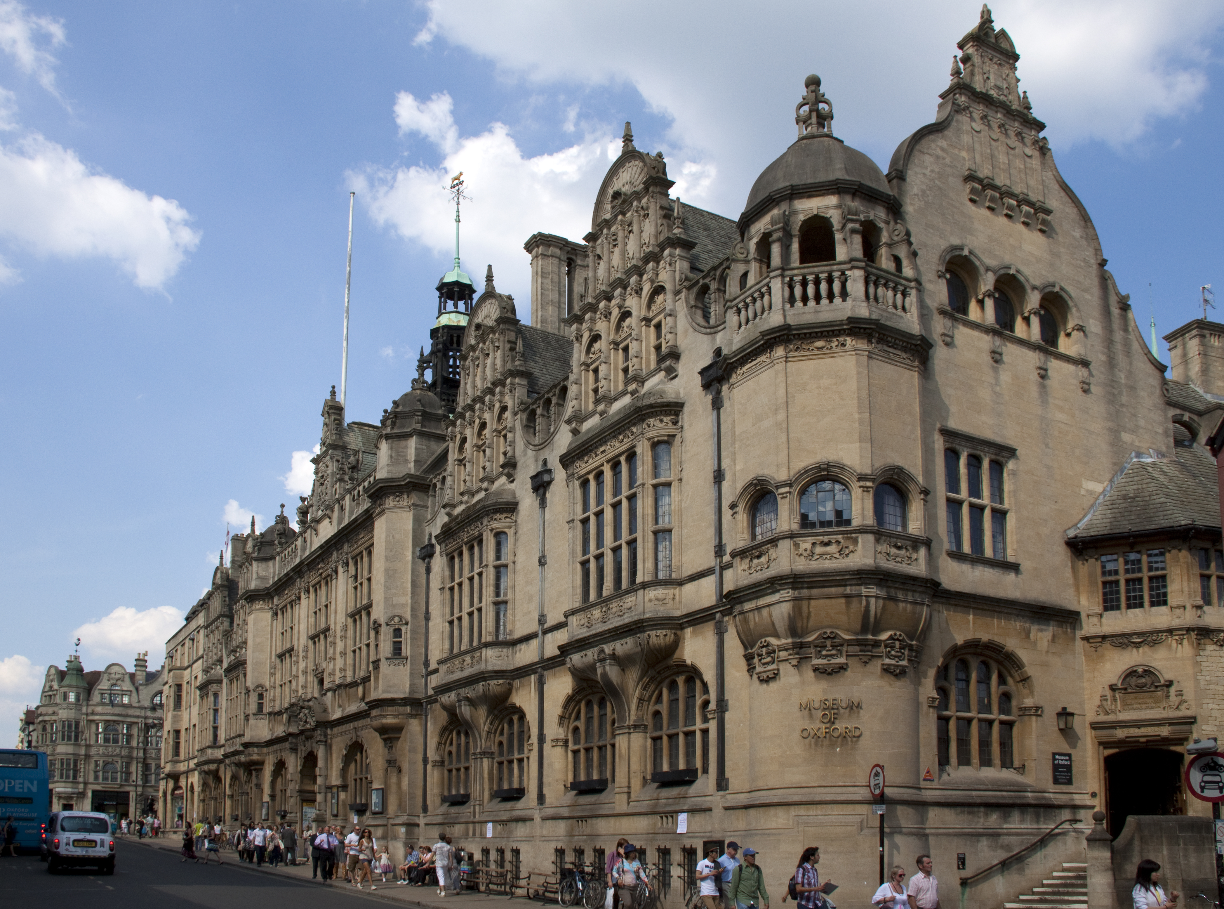 The Town Hall, St Aldate's Street, Oxford. The Museum of Oxford is in this end of the building